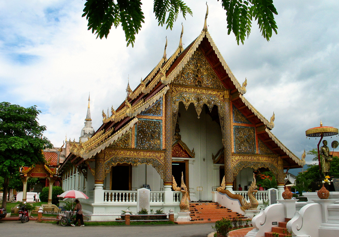 Main viharn, Wat Phra Singh, Chiang Mai, northern Thailand